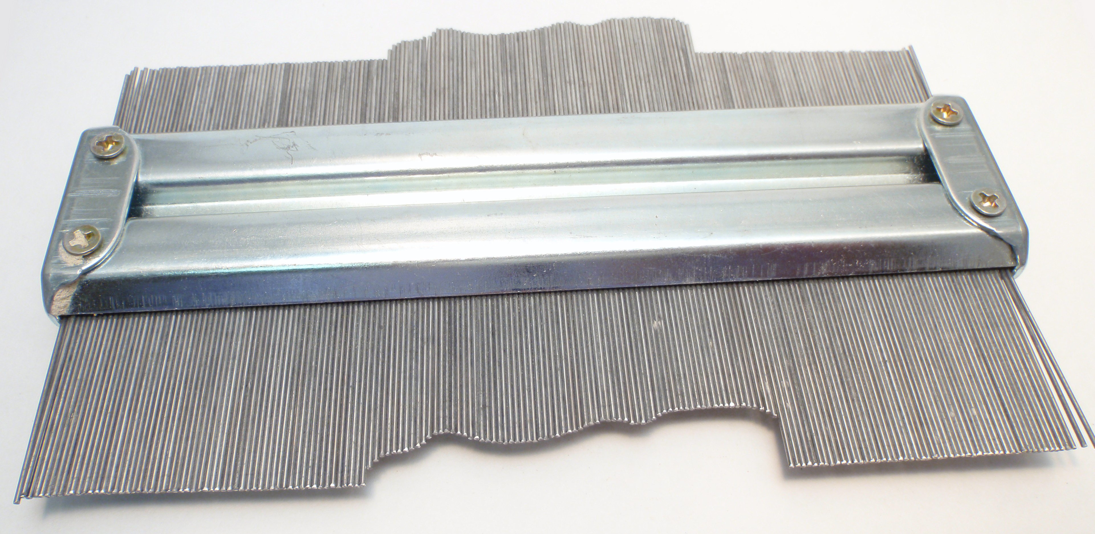 a contour gauge set to the contour of a moulding